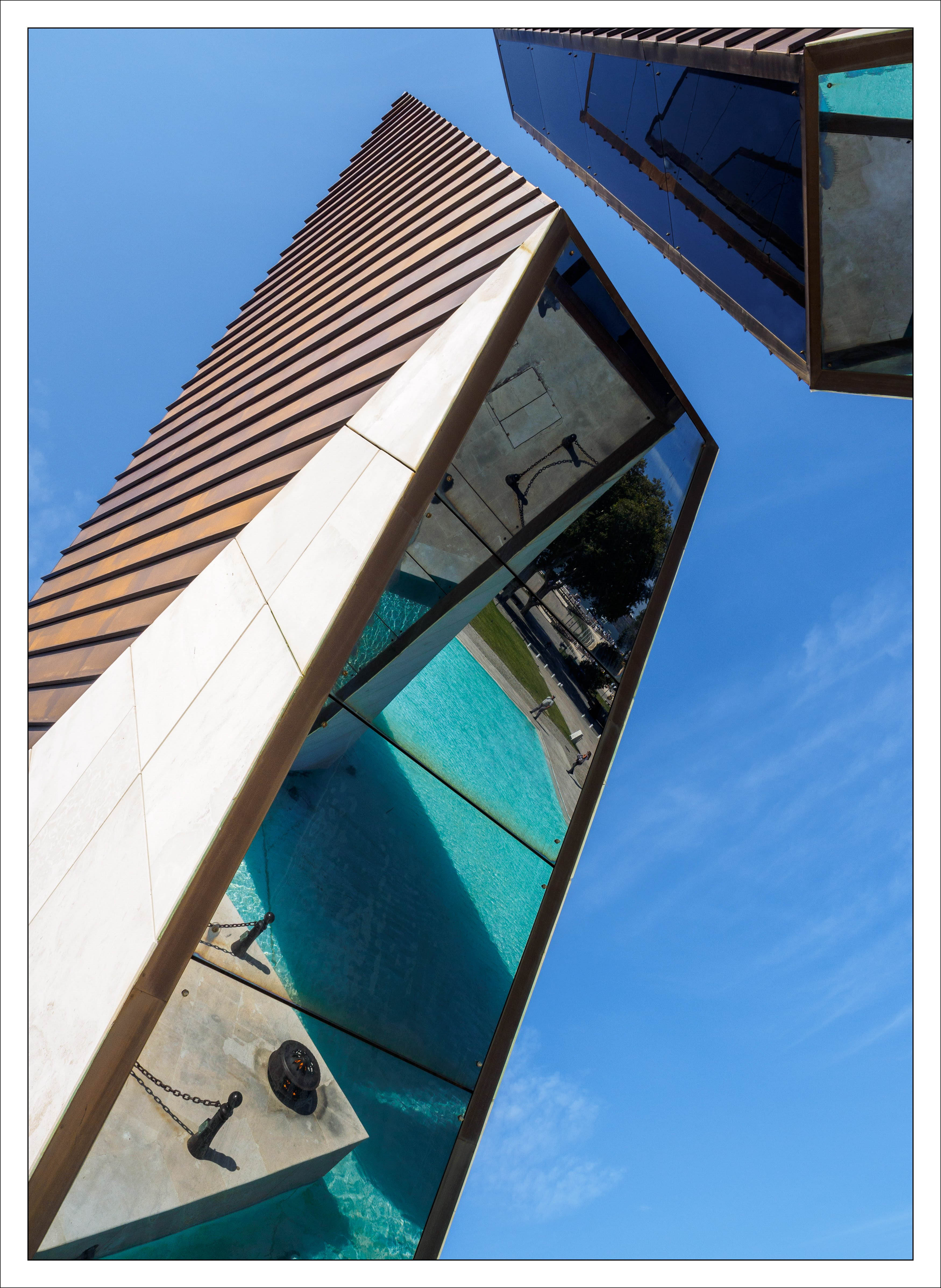 Memorial Monument of the overseas fallen soldiers; Lisbon, Portugal